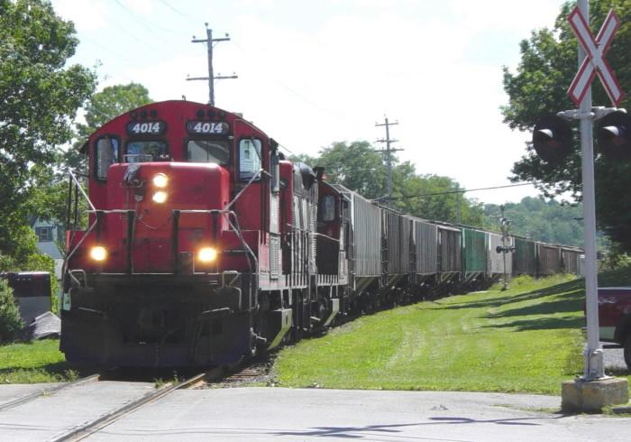 Windsor and Hantsport Railway freight train westbound with 13 carloads of animal feed grain, approaching the William Street crossing in Hantsport, 1:53pm 22 August 2006. Seven of these cars are to be set out on the sidings at Greenwich, and the remainder are to be delivered to New Minas. Photograph by Ivan Smith.